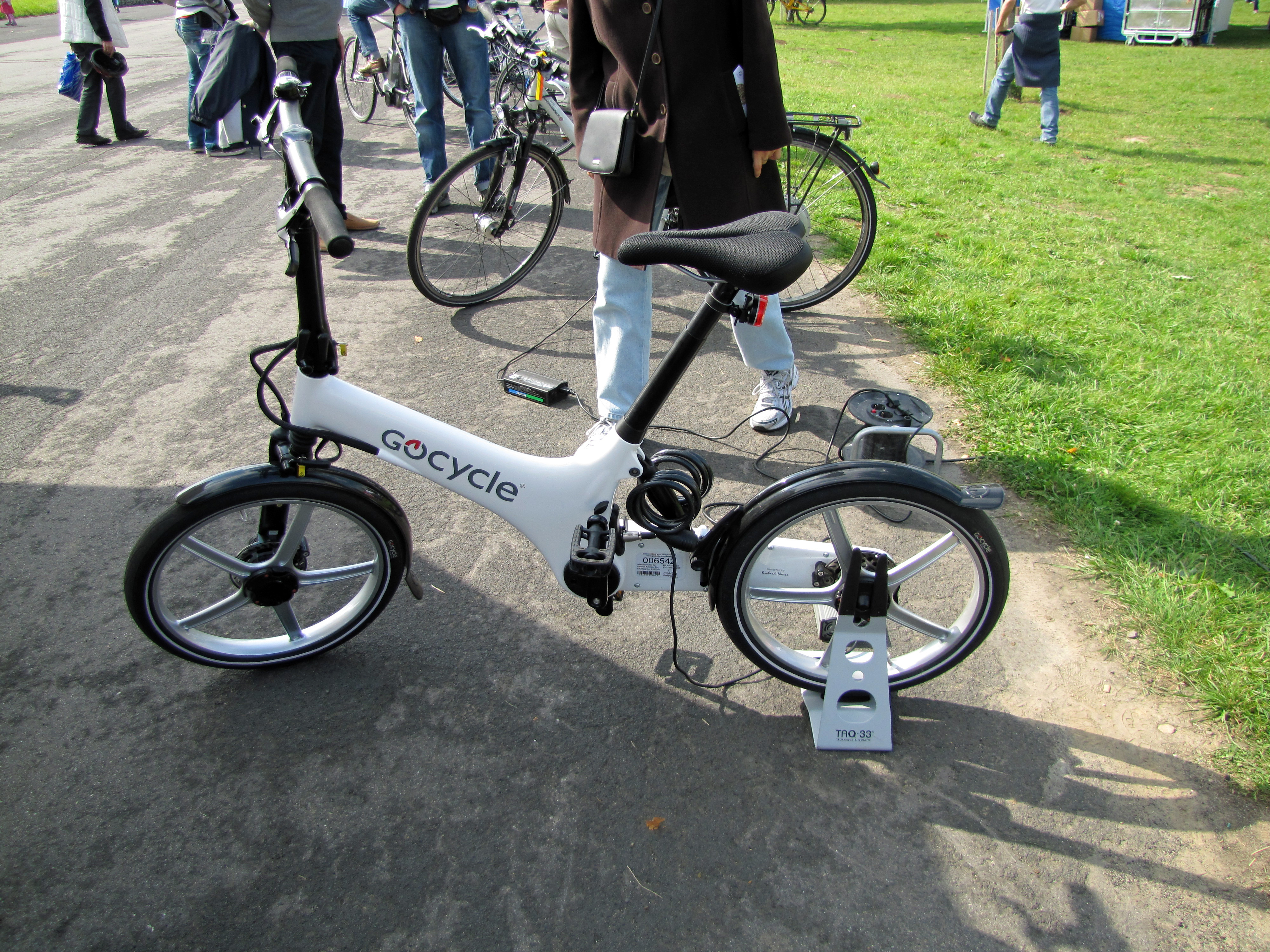 "GoCycle" by karbon kinetics limited.